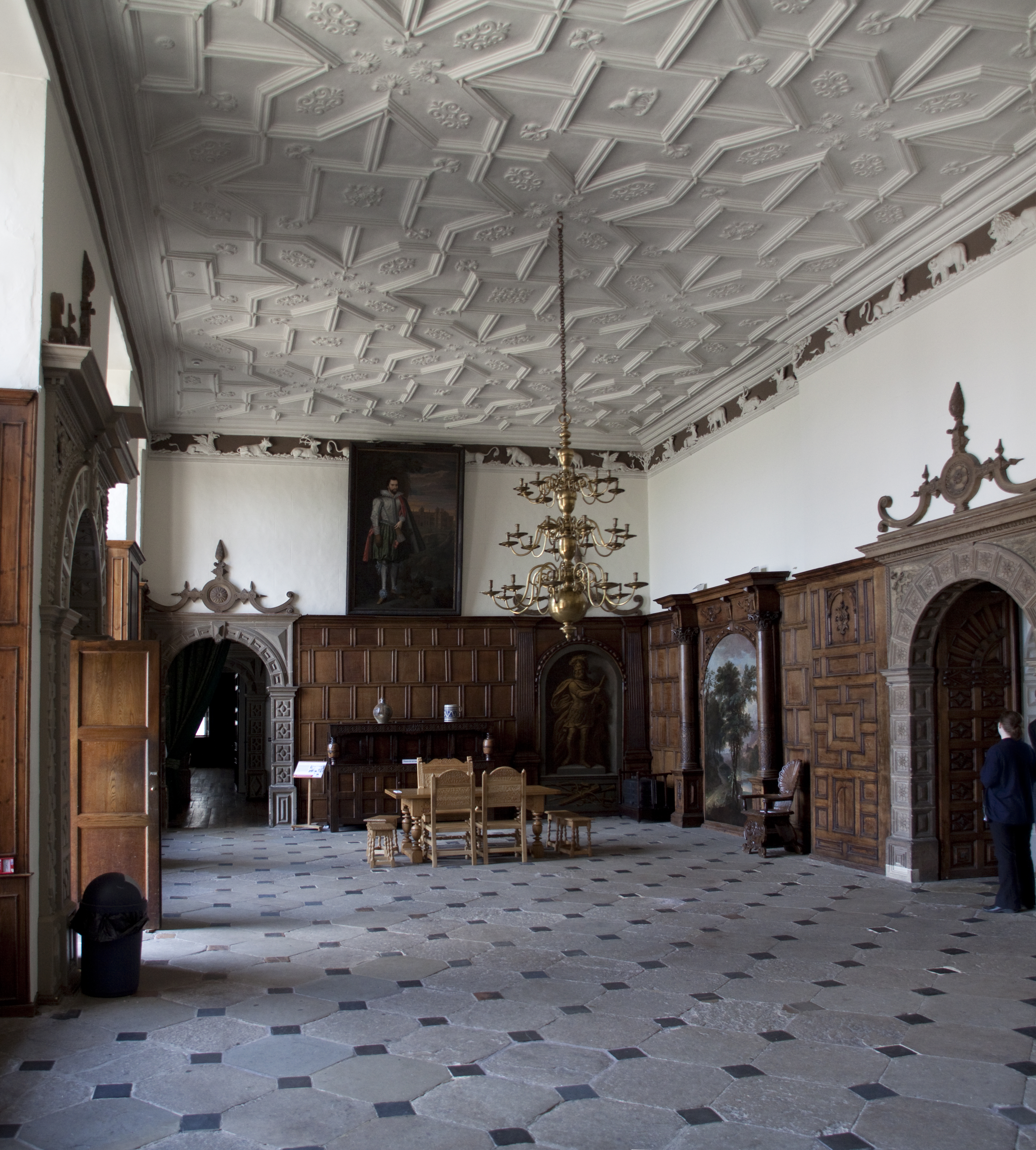 Aston Hall Parlour